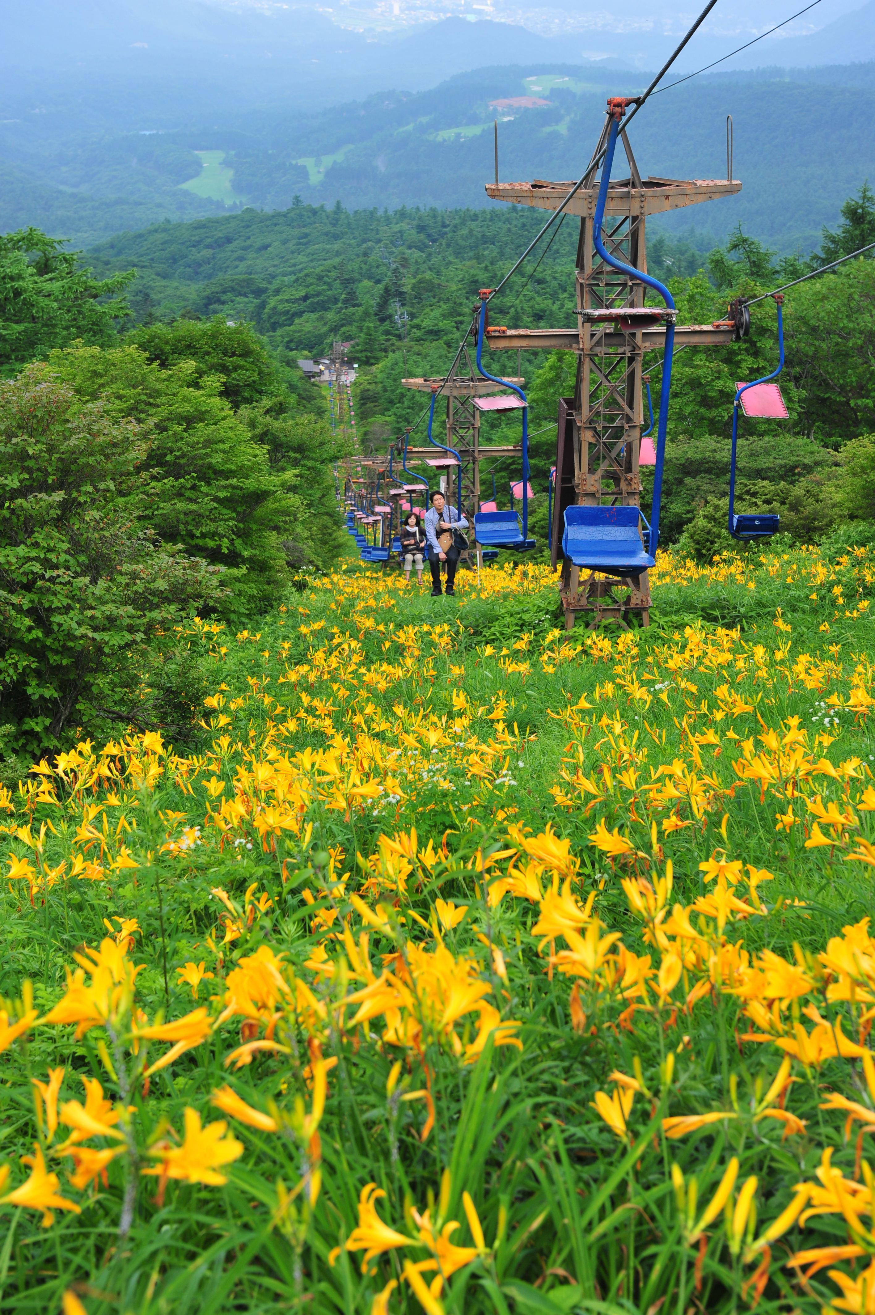 Japan: former Kisugedaira park's chairlift on the east slope of mount Akanagi (Nikkō city, Tochigi prefecture).